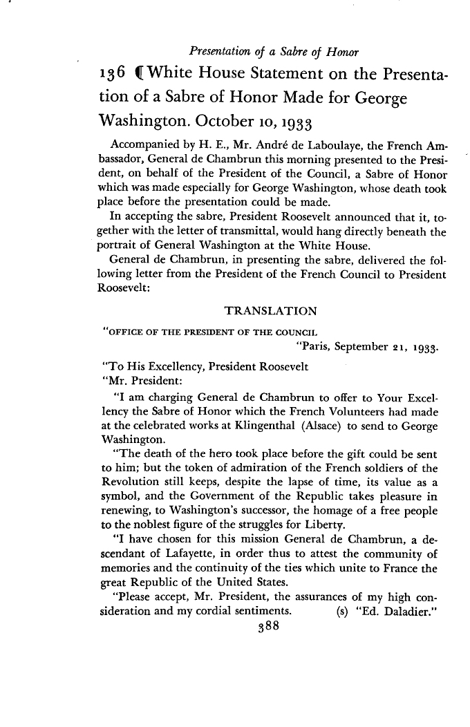 The public papers and addresses of Franklin D. Roosevelt. Volume two, The year of crisis, 1933, with a special introduction and explanatory notes by President Roosevelt. Book 1 Author: Roosevelt, Franklin D., 1882-1945. Collection: Public Papers of the Presidents of the United States